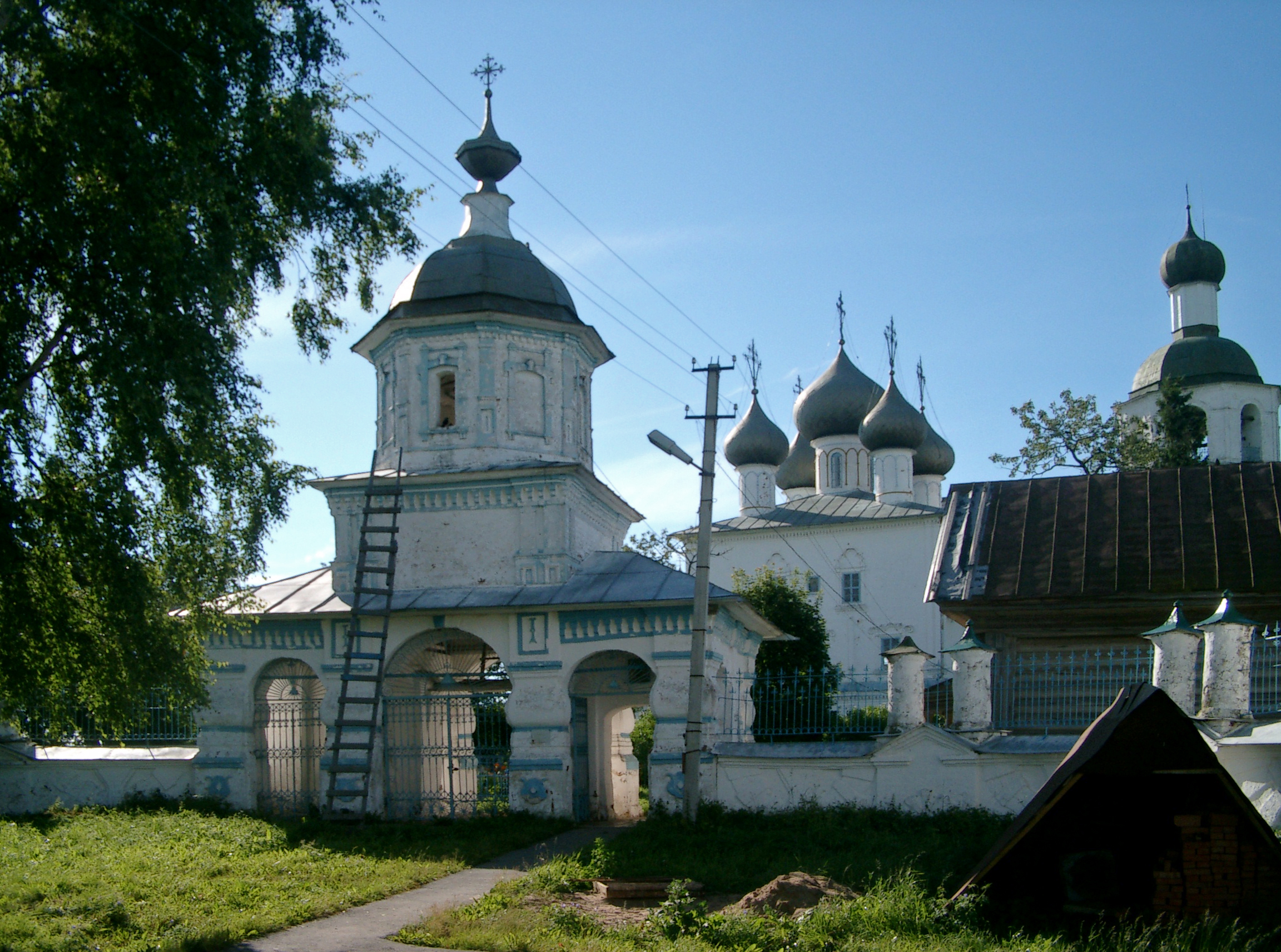 Ilyinsky Pogost, next to Kadnikov, Vologda Oblast, Russia